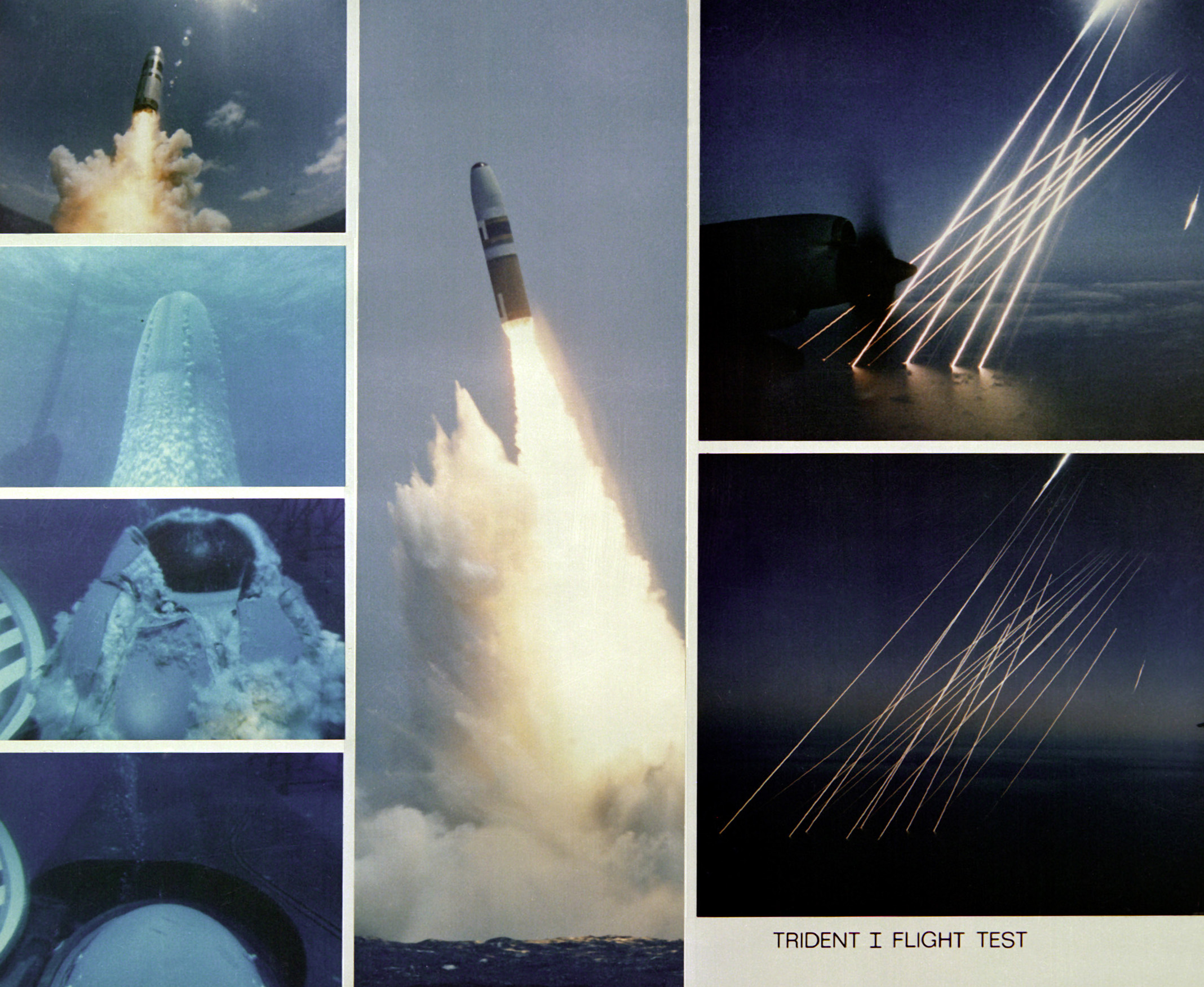 A montage of seven views showing parts of the launching of a Trident I C-4 missile from the submerged nuclear-powered strategic missile submarine USS FRANCIS SCOTT KEY (SSBN-657) and the Trident's re-entry bodies as they plunge into the earth's atmosphere and then into the Atlantic Ocean.